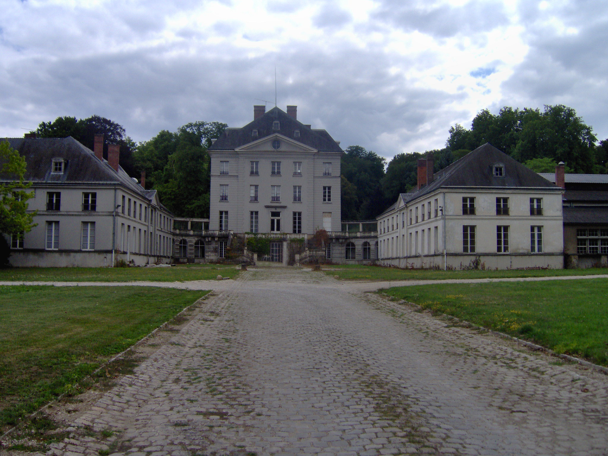 Ablois's Castle, Saint Martin d'Ablois, Marne, France